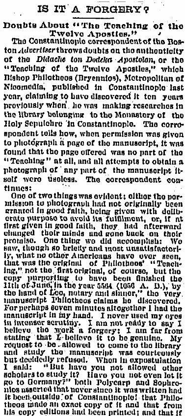 Article about new-found Didache in Chicago Daily Tribune 9 august 1884.